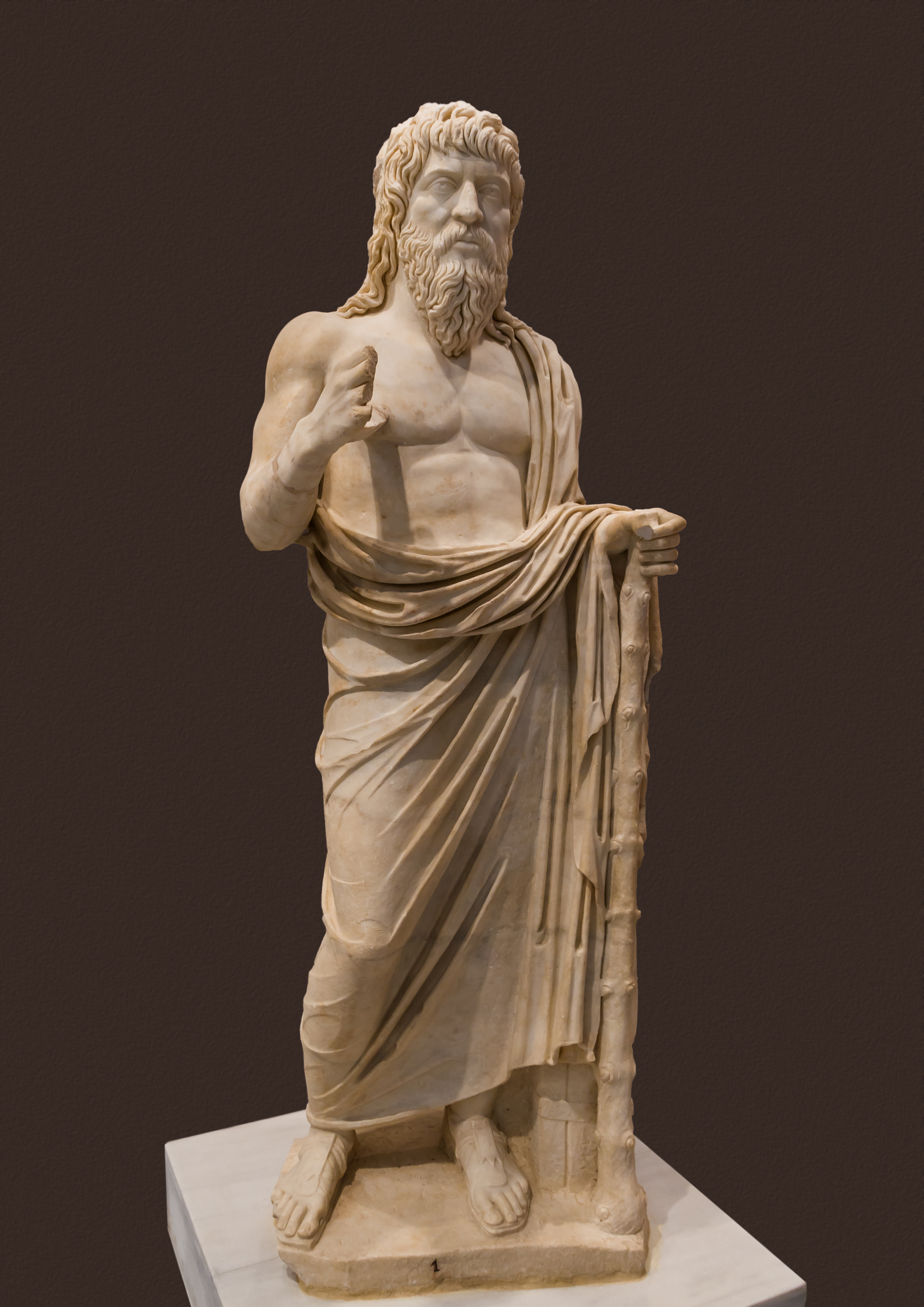 Statue of a philosopher, probably Apollonius of Tyana. Late 2nd - 3rd century AD.